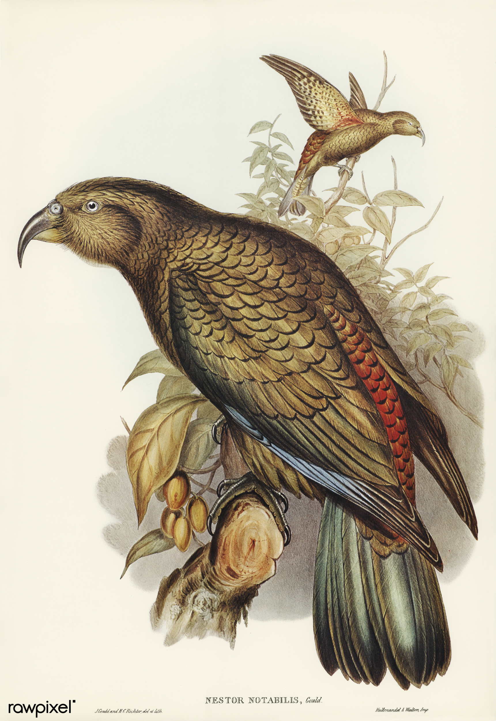 Kea Parrot (Nestor notabilis) illustrated by Elizabeth Gould (1804–1841) for John Gould’s (1804-1881) Birds of Australia (1972 Edition, 8 volumes). Digitally enhanced from our own facsimile book (1972 Edition, 8 volumes).